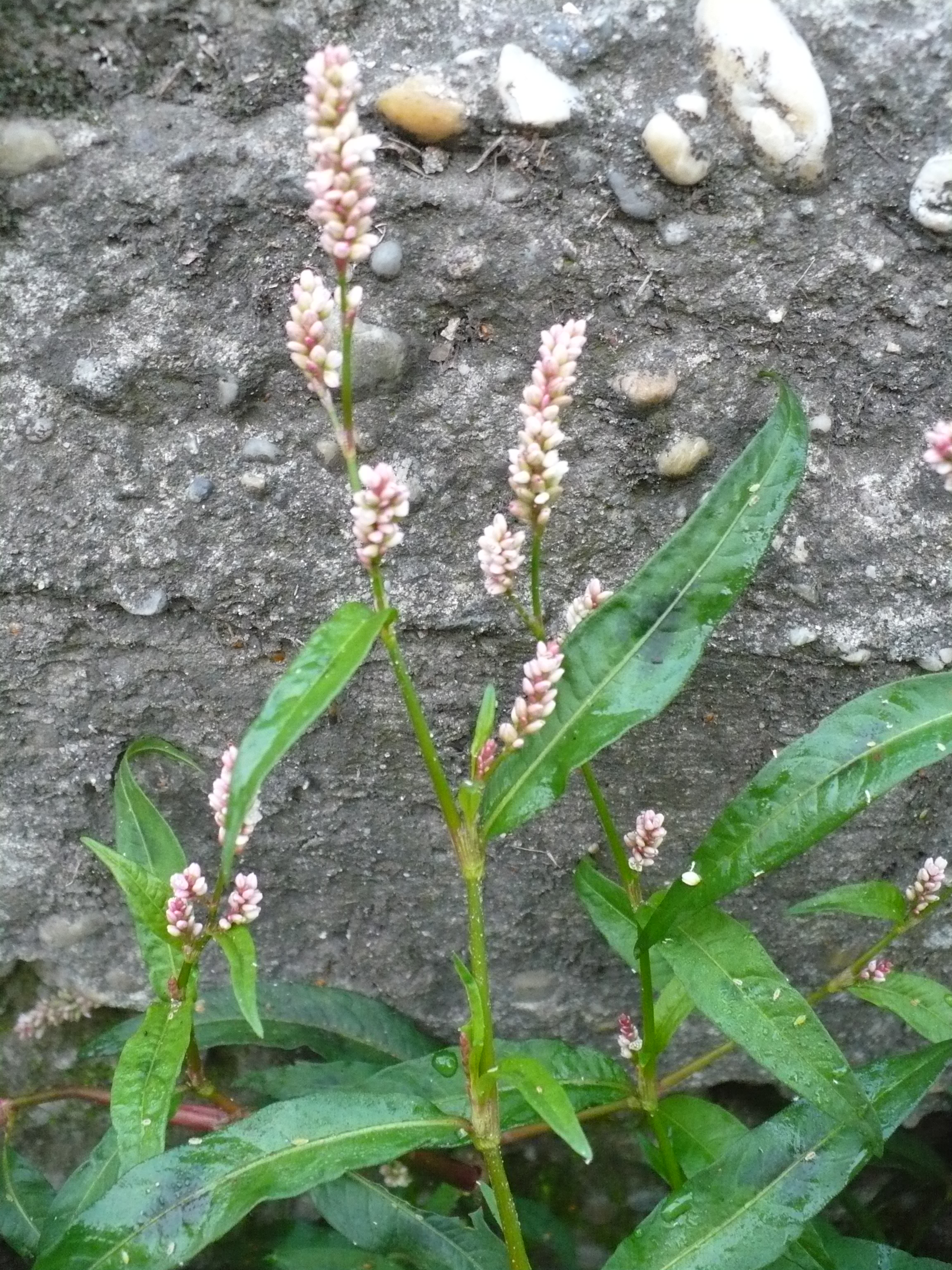 Persicaria maculosa (redshank)